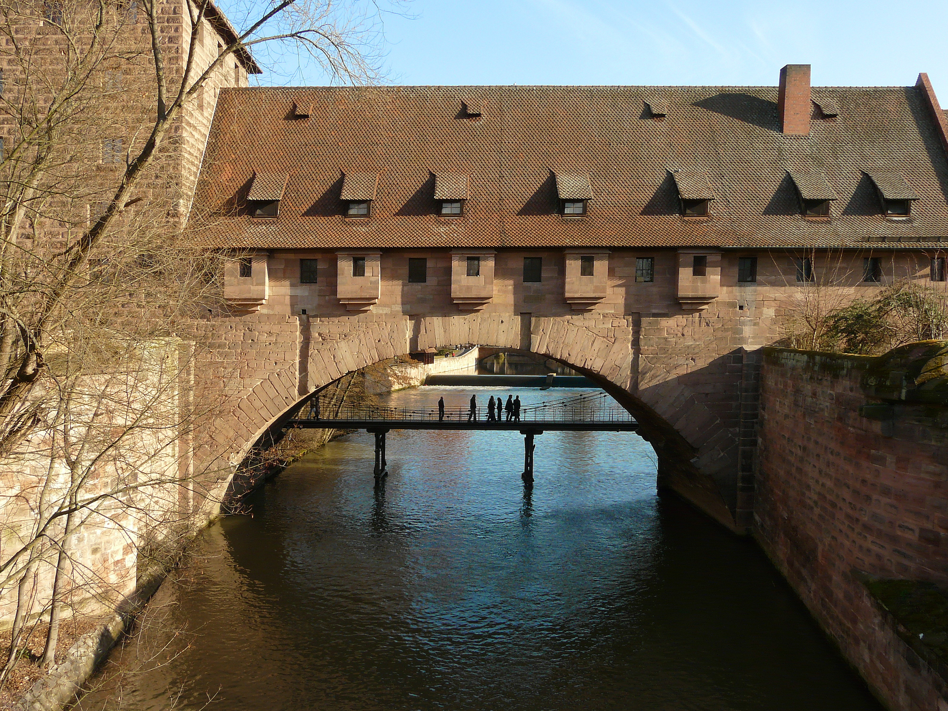 Fronfeste (soccage-stronghold) and Kettensteg (chain-bridge) in Nuremberg, Germany seen from west. This is the point where river Pegnitz leaves the old town through the city wall.